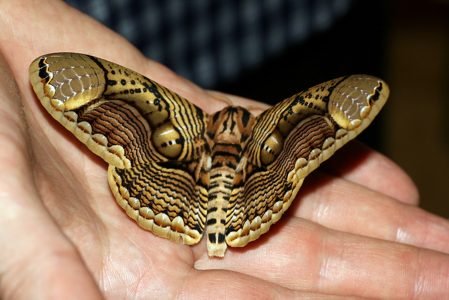 A Brameid moth at Fraser's Hill, Malaysia